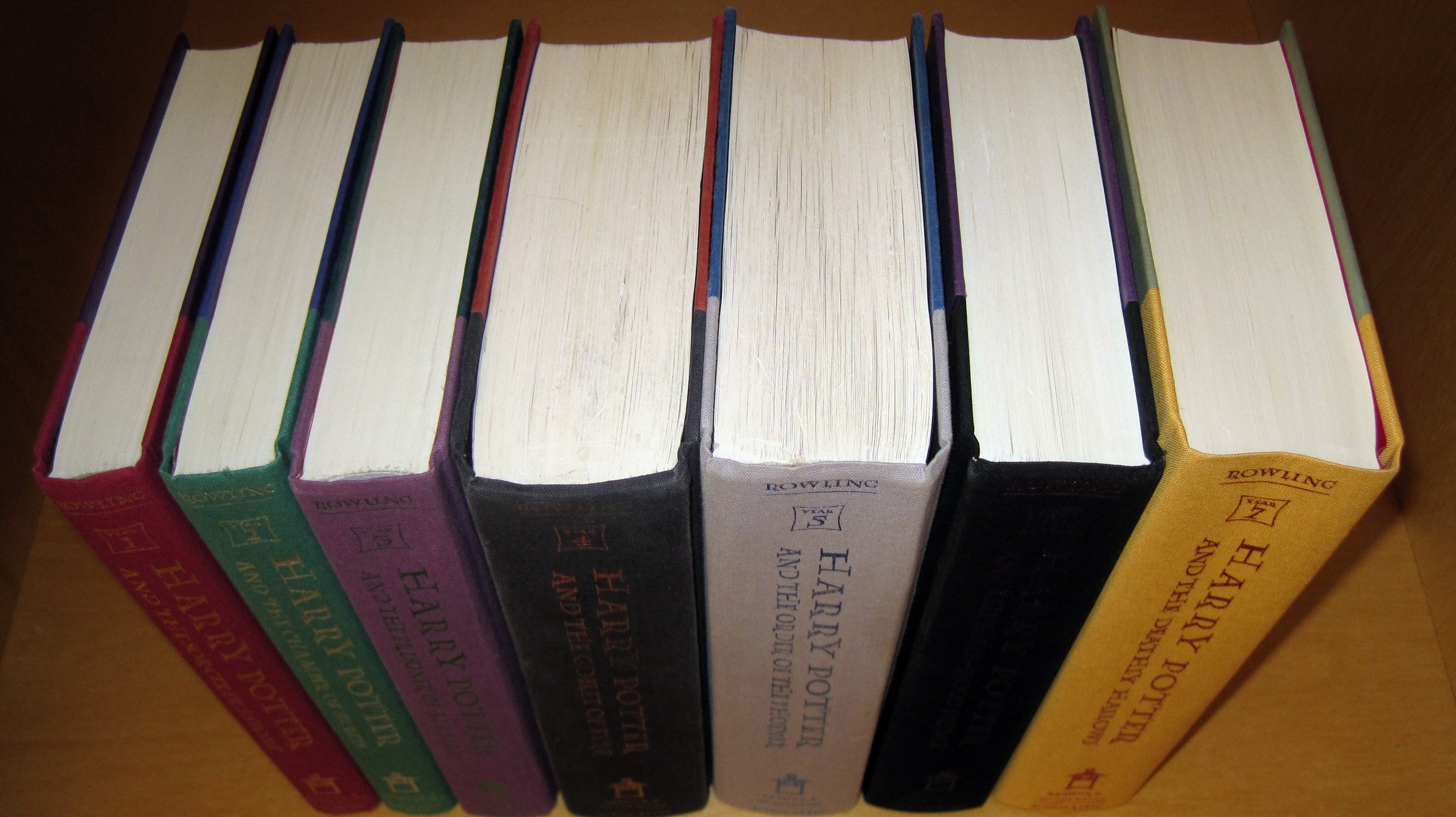 All seven books in the Harry Potter series in order without their dust jackets. Each hardcover book used a different two-color scheme. The books are the first American editions published by Scholastic. Author's collection.